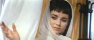 Brigid Bazlen. Screenshot from the trailer of the film King of Kings.